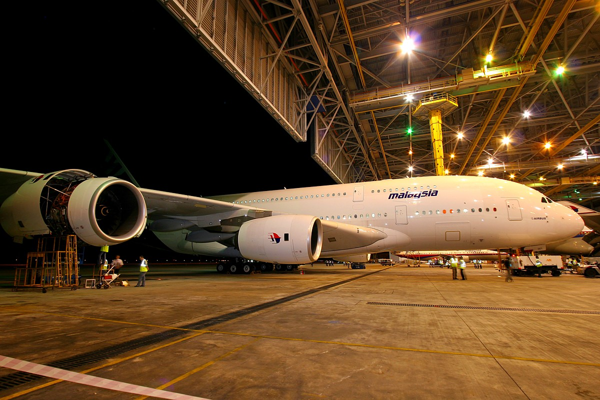 A380 in Malaysia Airlines Livery